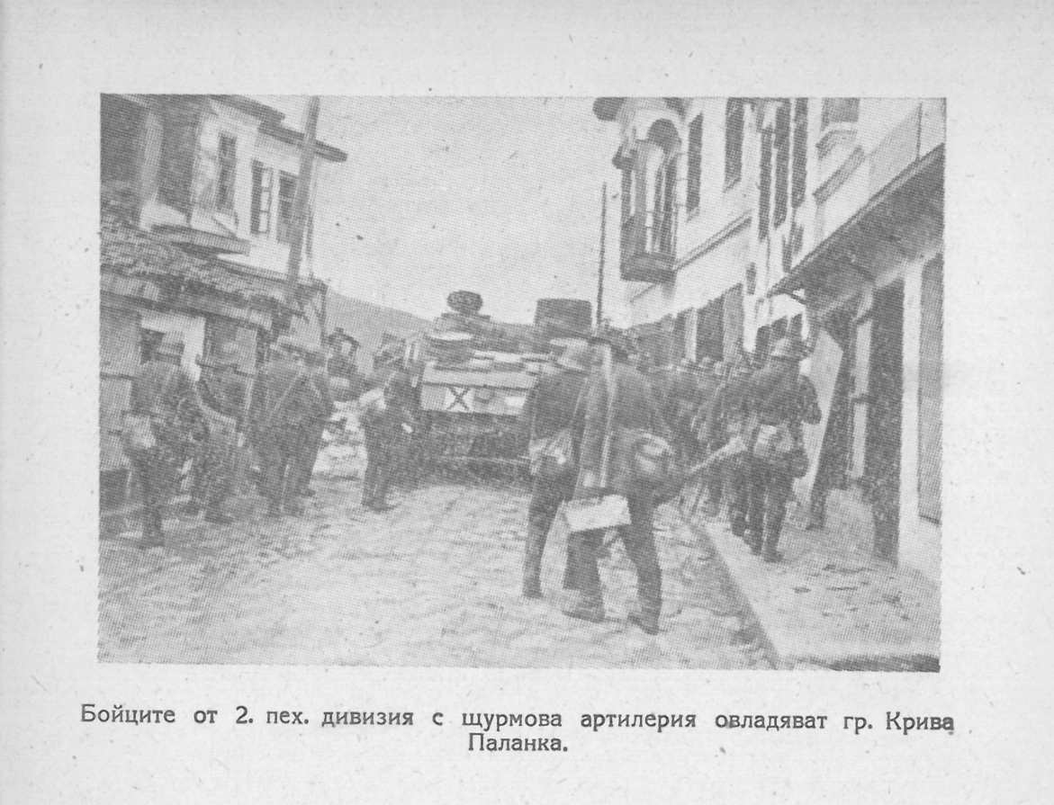 Bulgarian troops entering the town of Kriva Palanka in Macedonia, October, 1944